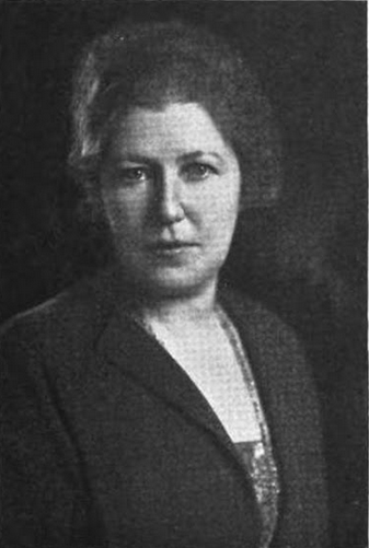 Mrs. Marcus M. Marks Director, New York City Federation Women's Clubs Photo by Alfred O. Hohen